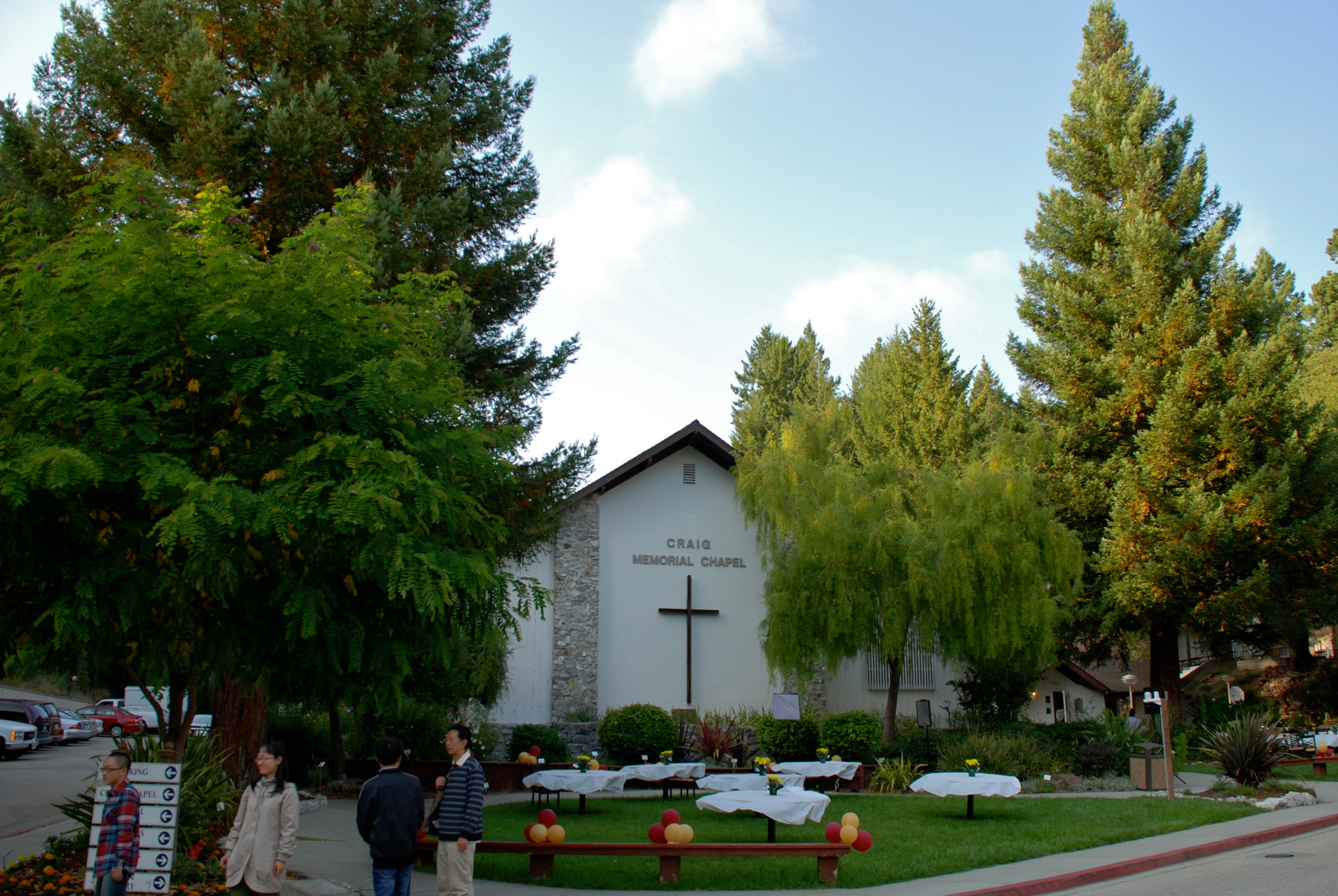 Craig Chapel was the central hub to the former Bethany University of the Assemblies of God campus in Scotts Valley, CA. The campus is now owned by Olivette University.